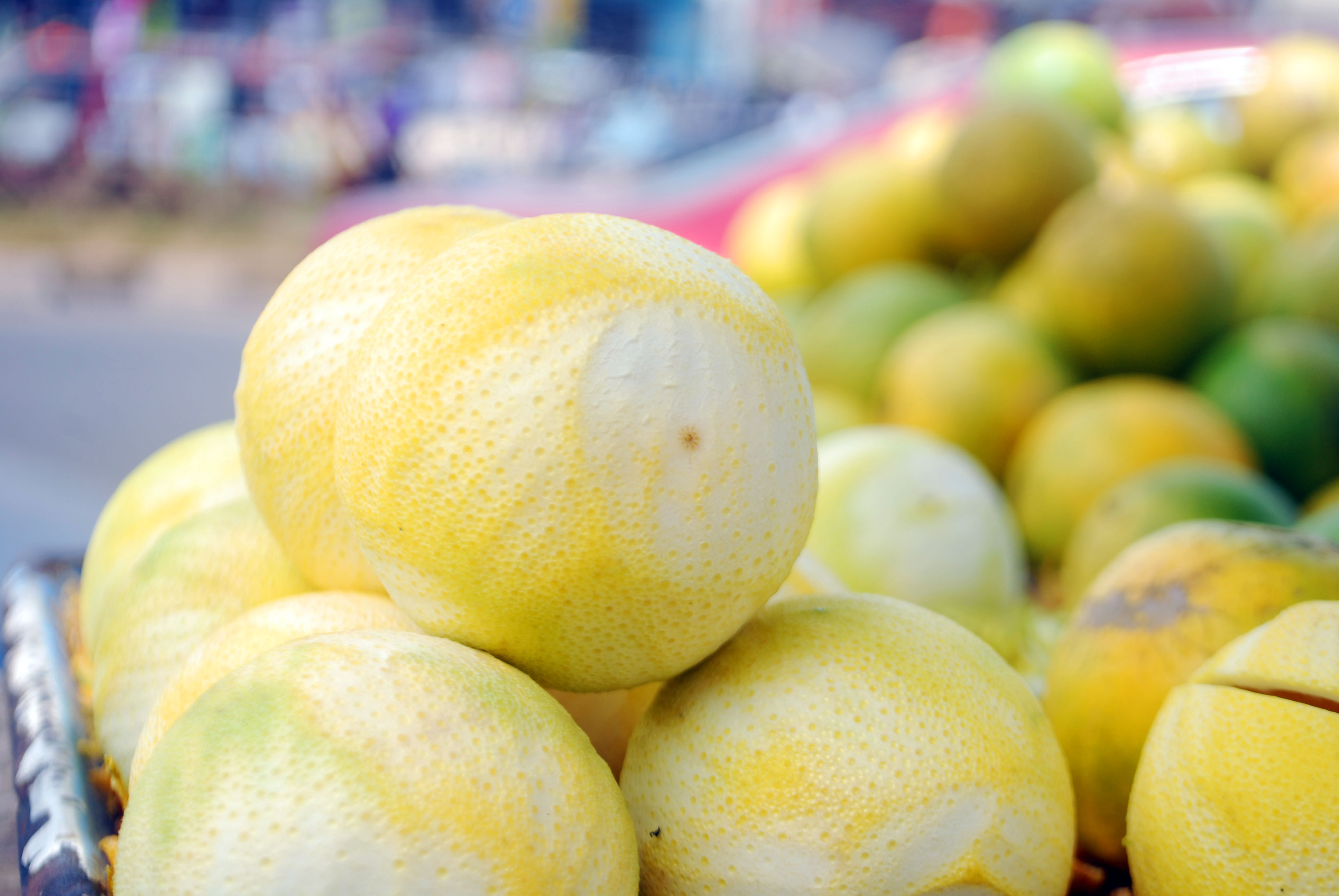 This is an image of "African people at work" from Nigeria